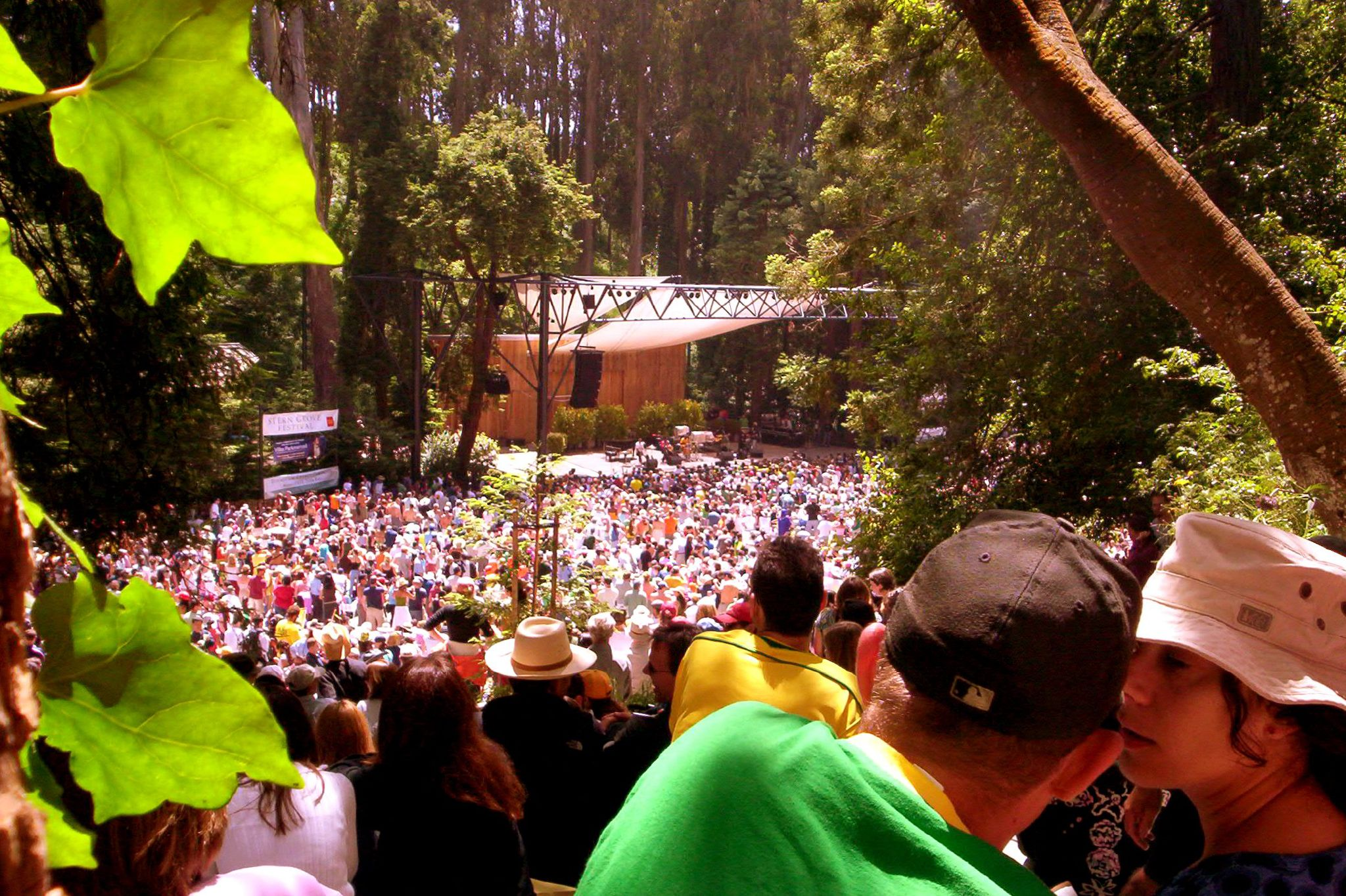 Seu Jorge at the Stern Grove Music Festival.